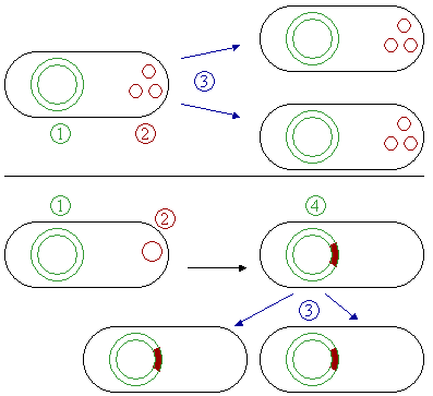 Line drawing that compares the activity of non-integrating plasmids, on the top, with episomes, on the bottom, during cell division. The upper half of the image shows a bacterium with its chromosomal DNA and plasmids dividing into two identical bacteria, each with their chromosomal DNA and plasmids. The lower half of the image shows a bacterium with its chromosomal DNA, but with an episome. Next to this bacterium, we see the same bacterium, but after the episome has integrated into the chromosomal DNA and has become a part of it. This second bacterium now divides into two bacteria identical to it, each with an episome integrated into it.